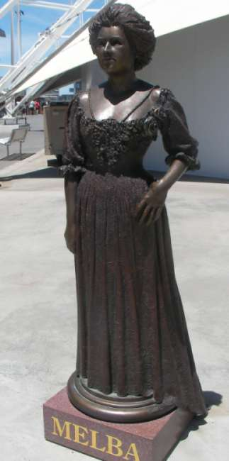 Statue of Dame Nellie Melba by Peter Corlett at Waterfront City, Melbourne Docklands